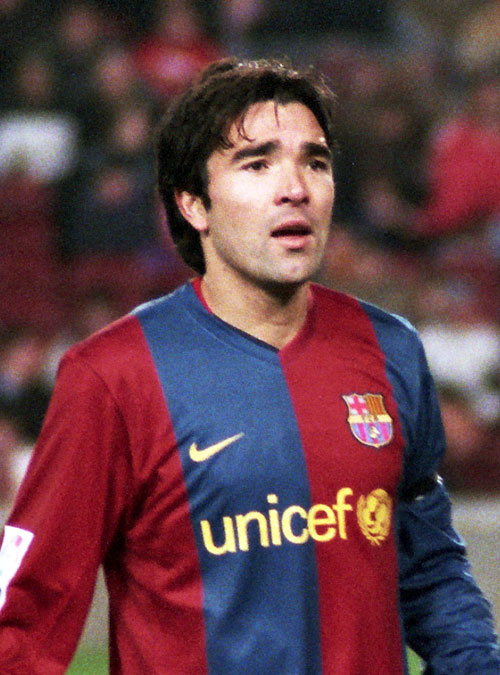 Deco, Futbol Club Barcelona's player, during the match FC Barcelona v Atlético de Madrid.